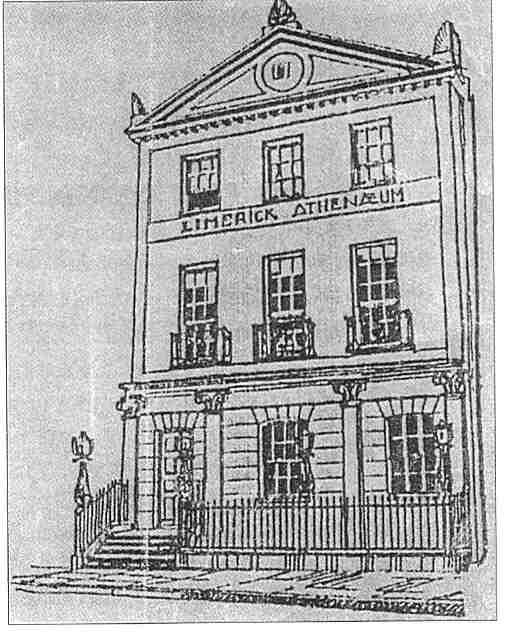 Sketch of Limerick Athenaeum building c. 1880